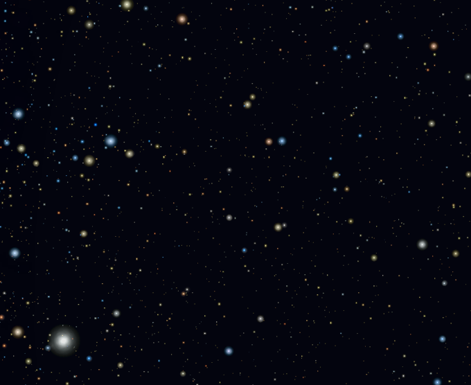 Image of Caelum